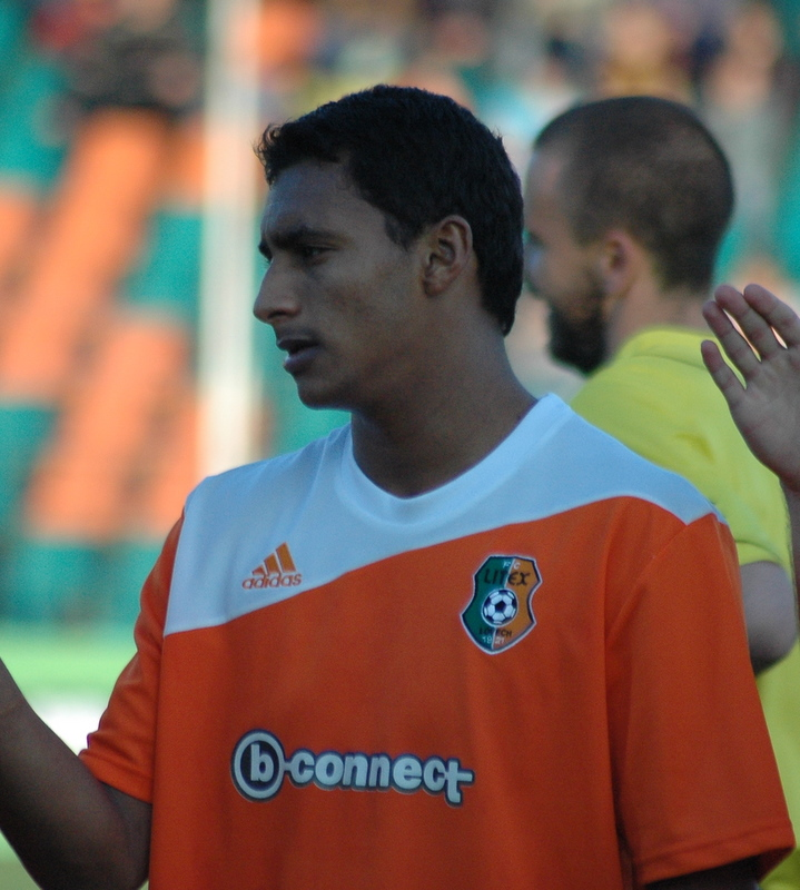 Doka Madureira